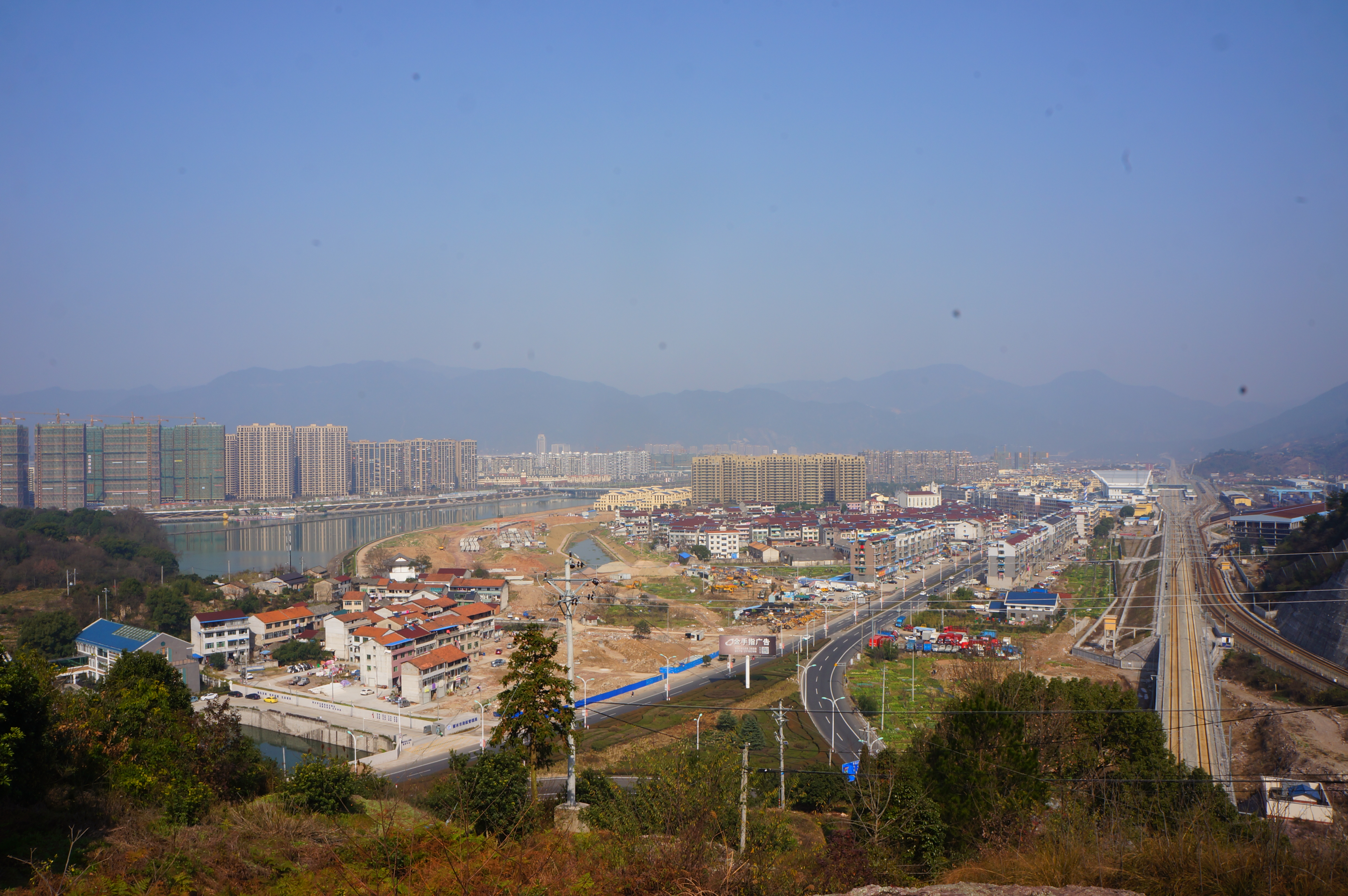 201701 Shuidong, Lishui. Shuidong means east to the river